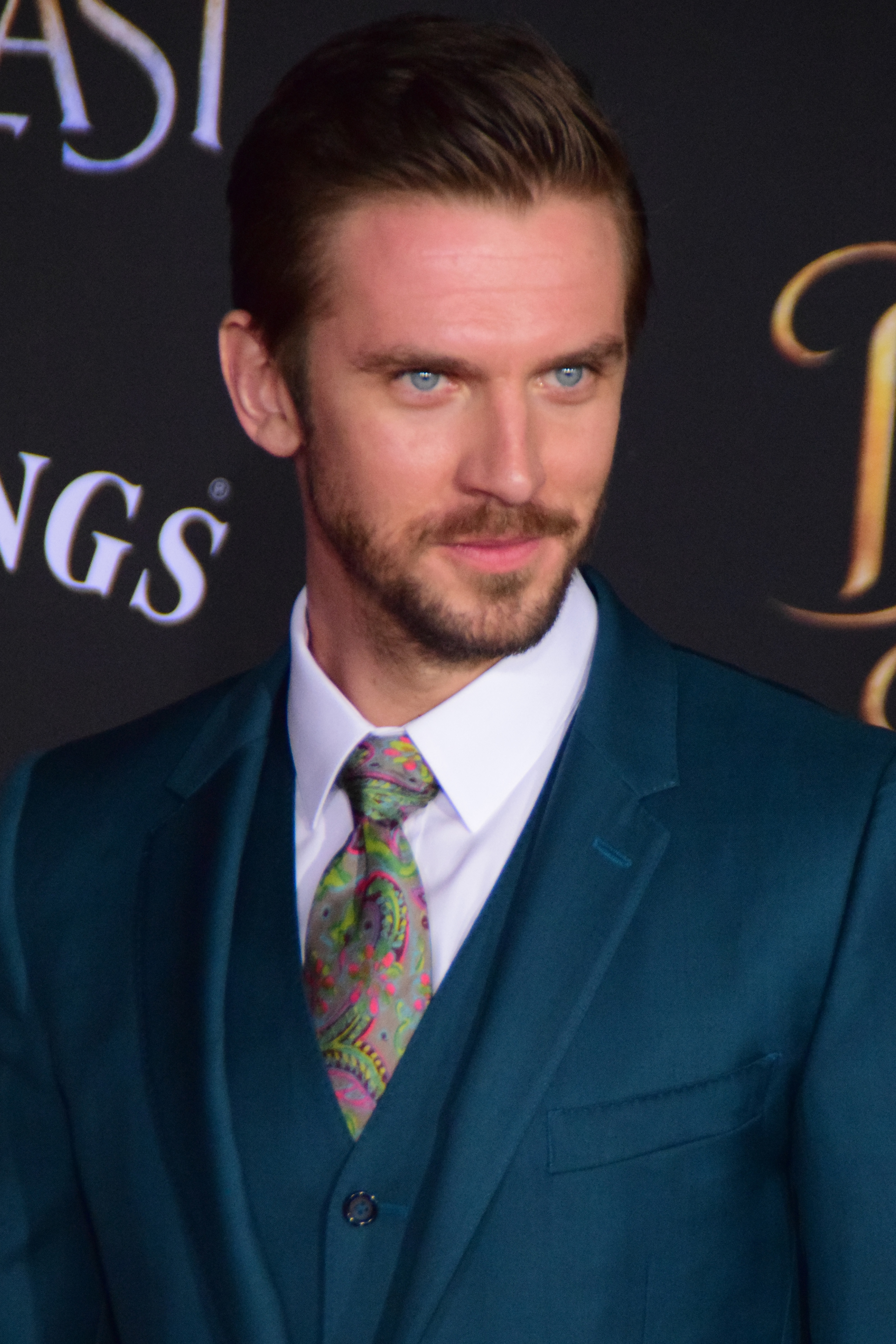 Dan Stevens at Premiere of Beauty and the Beast